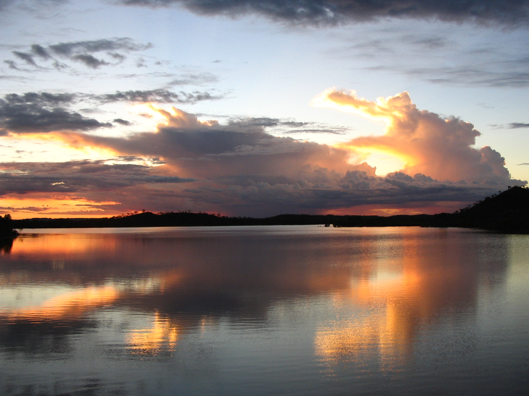 Category:Images of nature